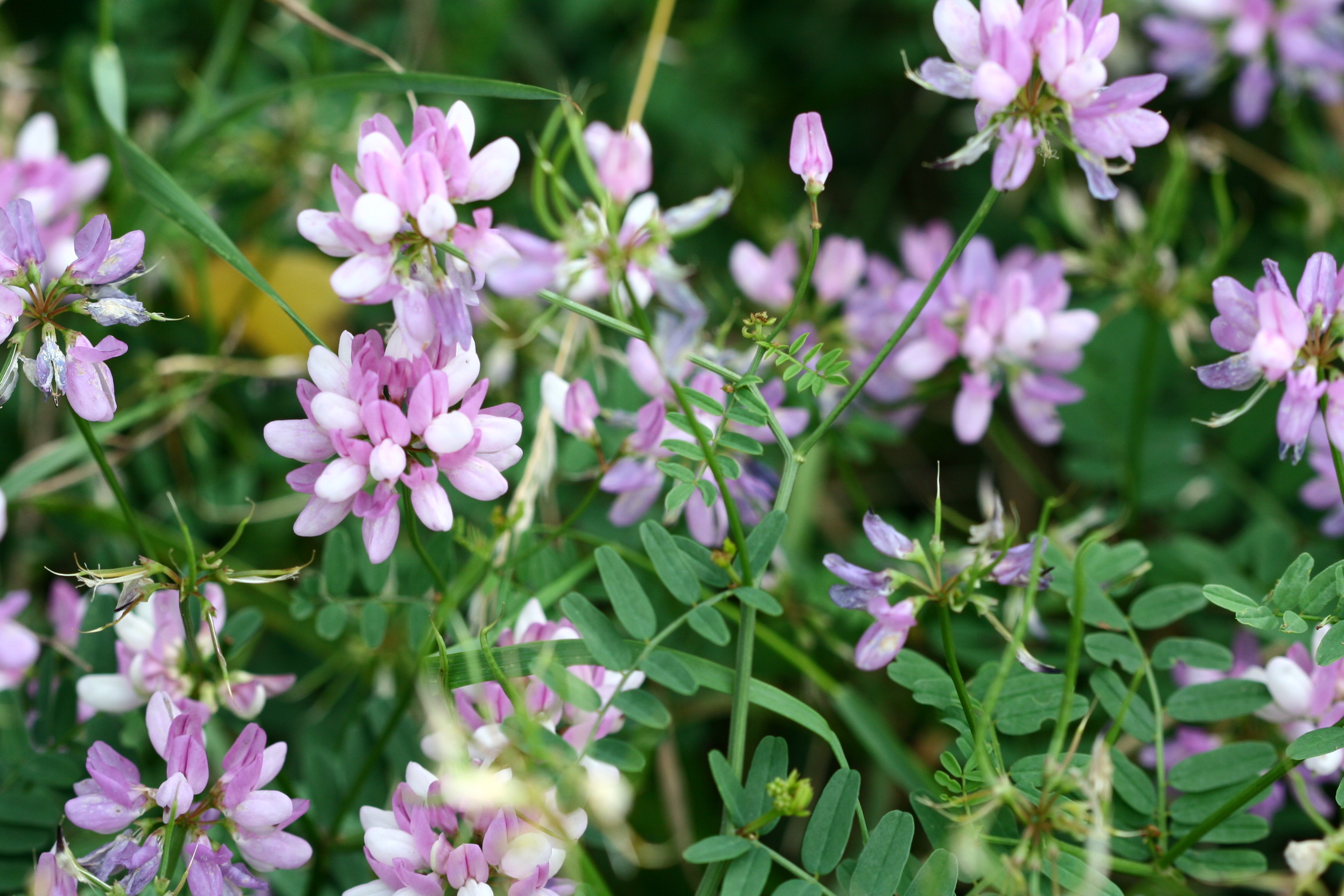 Securigera varia (= Coronilla varia) on a roadside in Massy, near Paris, France